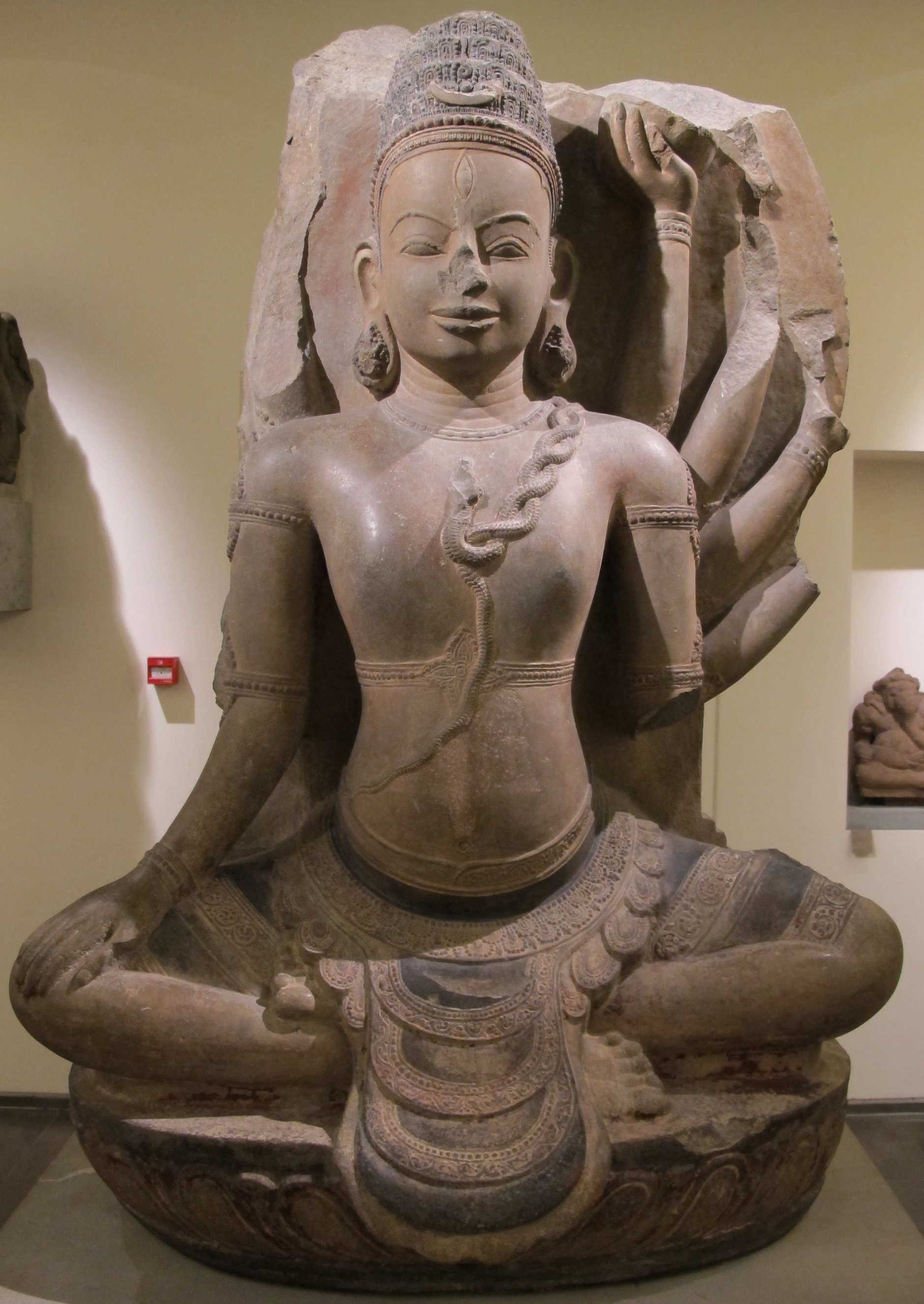 Vietnam, shiva, da thap banh it (torre d'argento), stile di transiz. tra my son A1 e thap mam, Xi-Xii sec